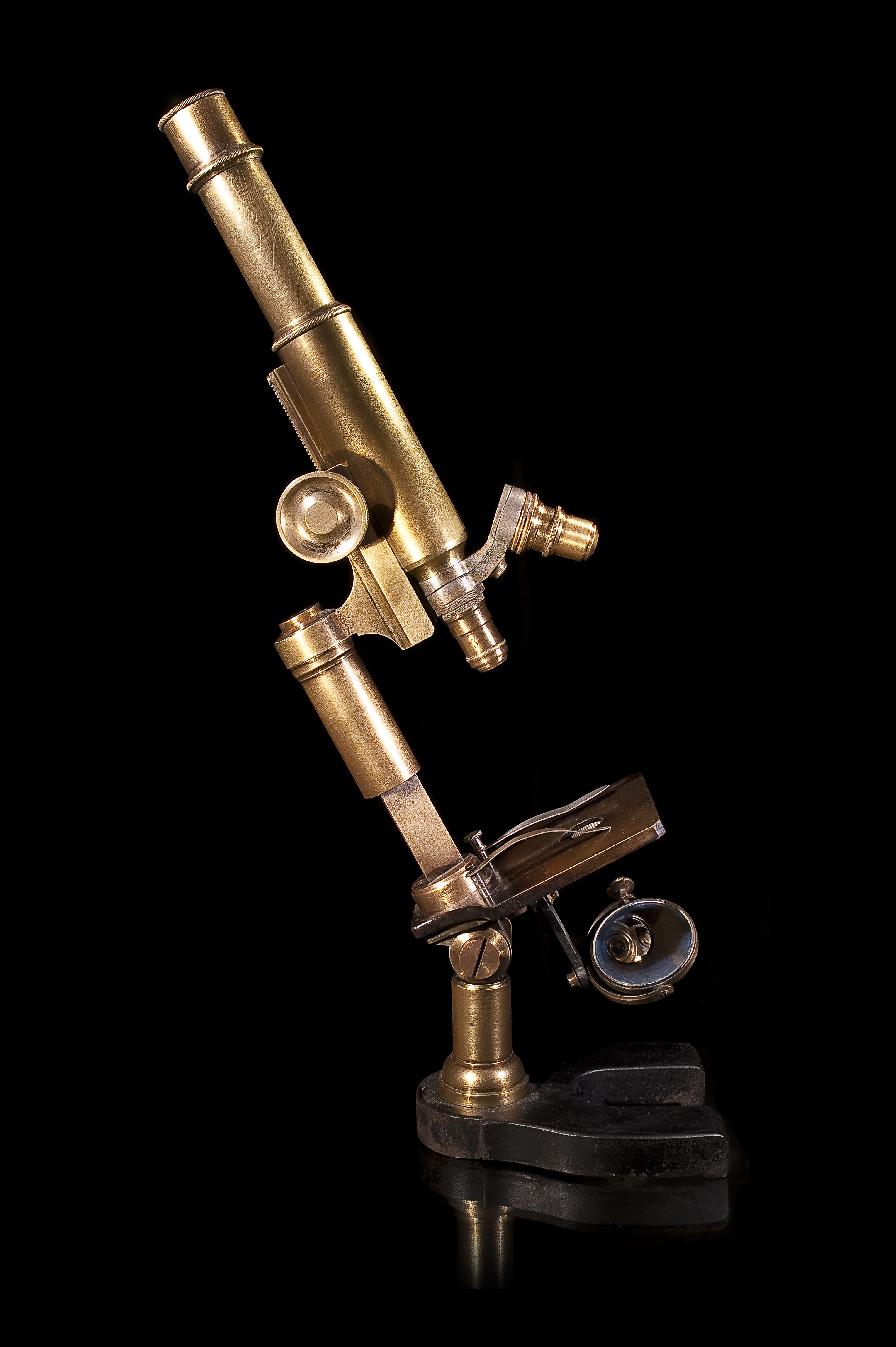 Microscope « Nachet et Fils Paris » 1854